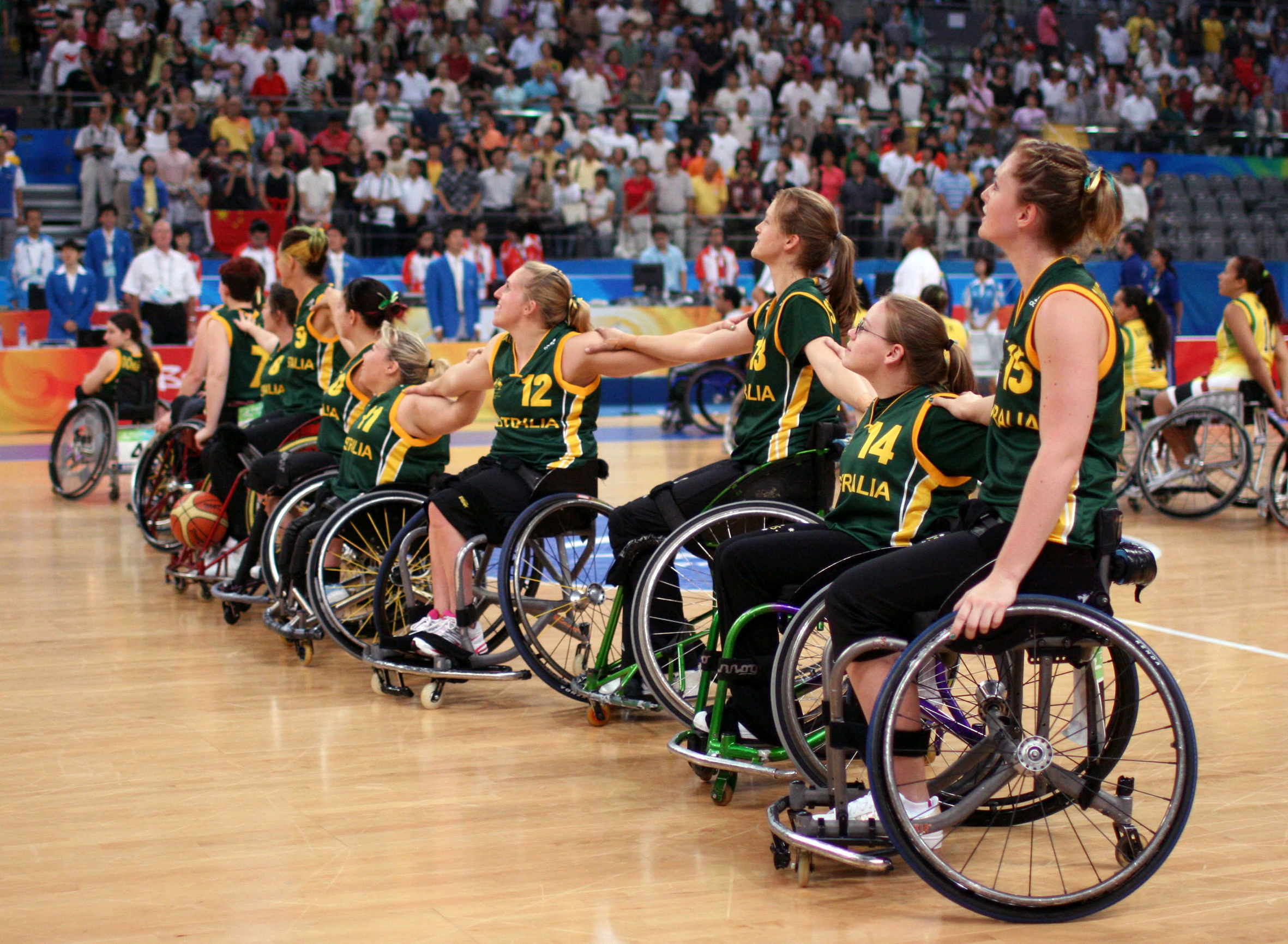 The Australian women's wheelchair basketball team - the Gliders - line up for the national anthem before their game against Brazil at the Beijing 2008 Paralympic Games